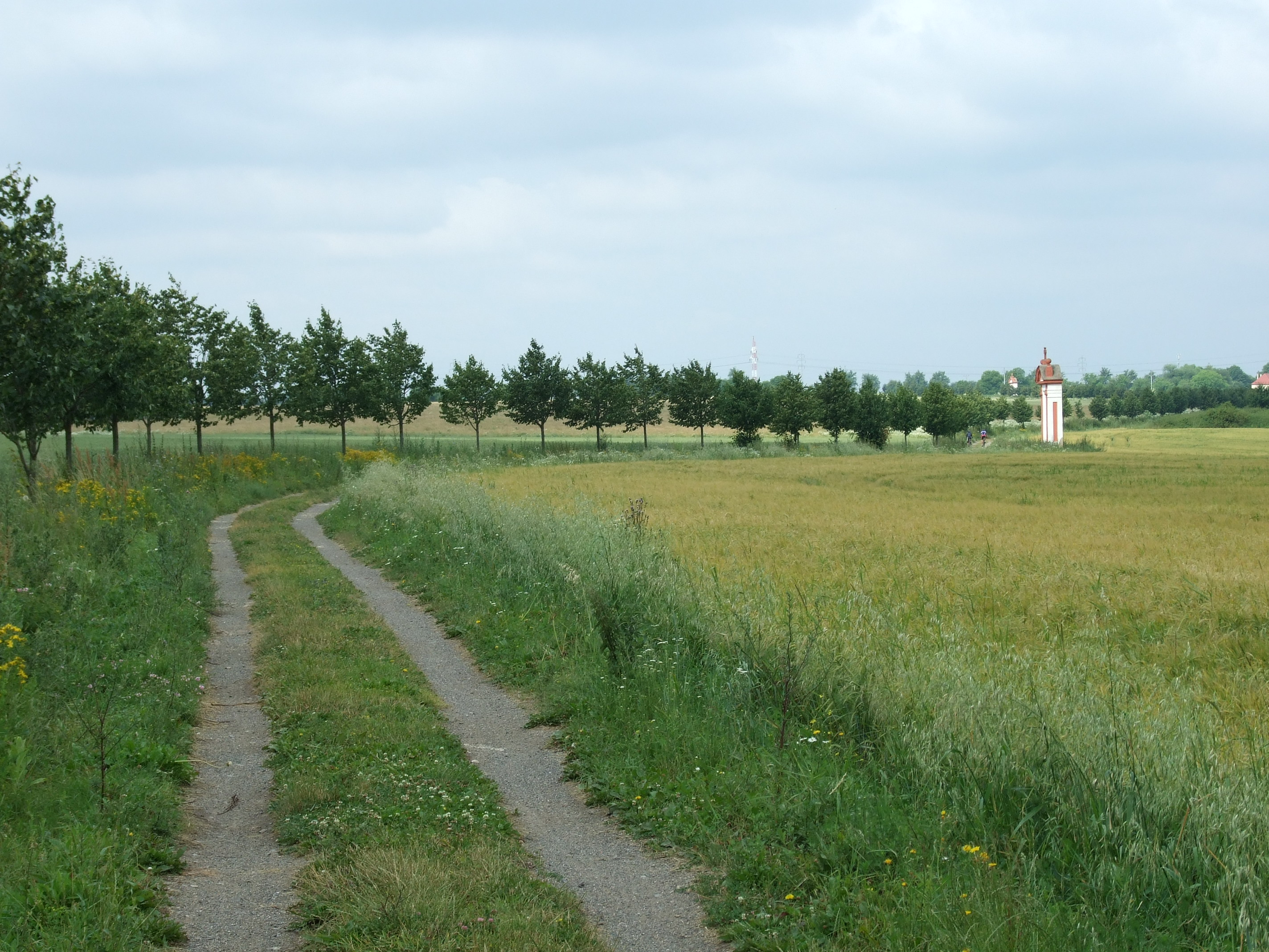 Road from Hostivice to Hájek, Central Bohemian region, CZ